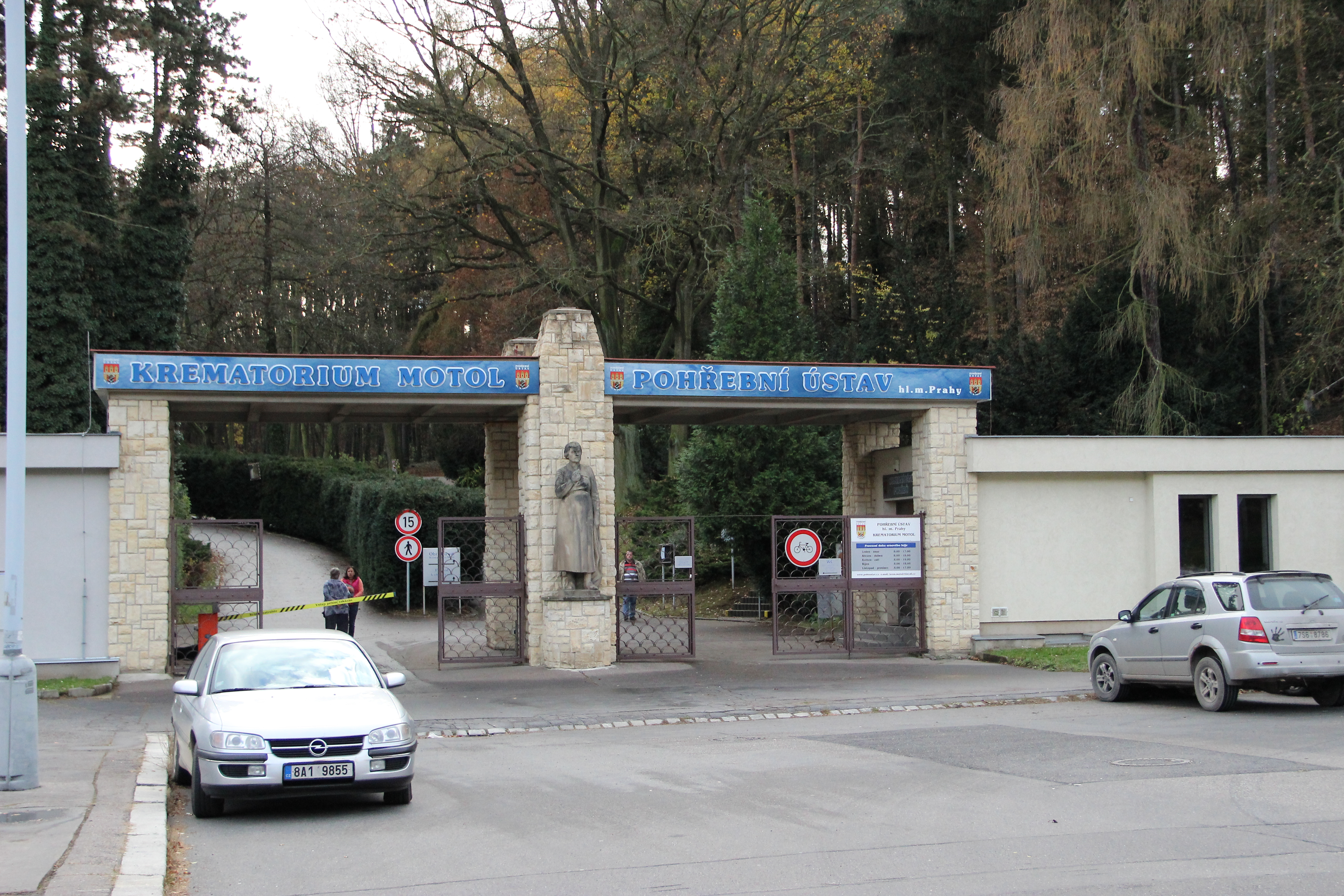 Vstup do Krematoria Motol